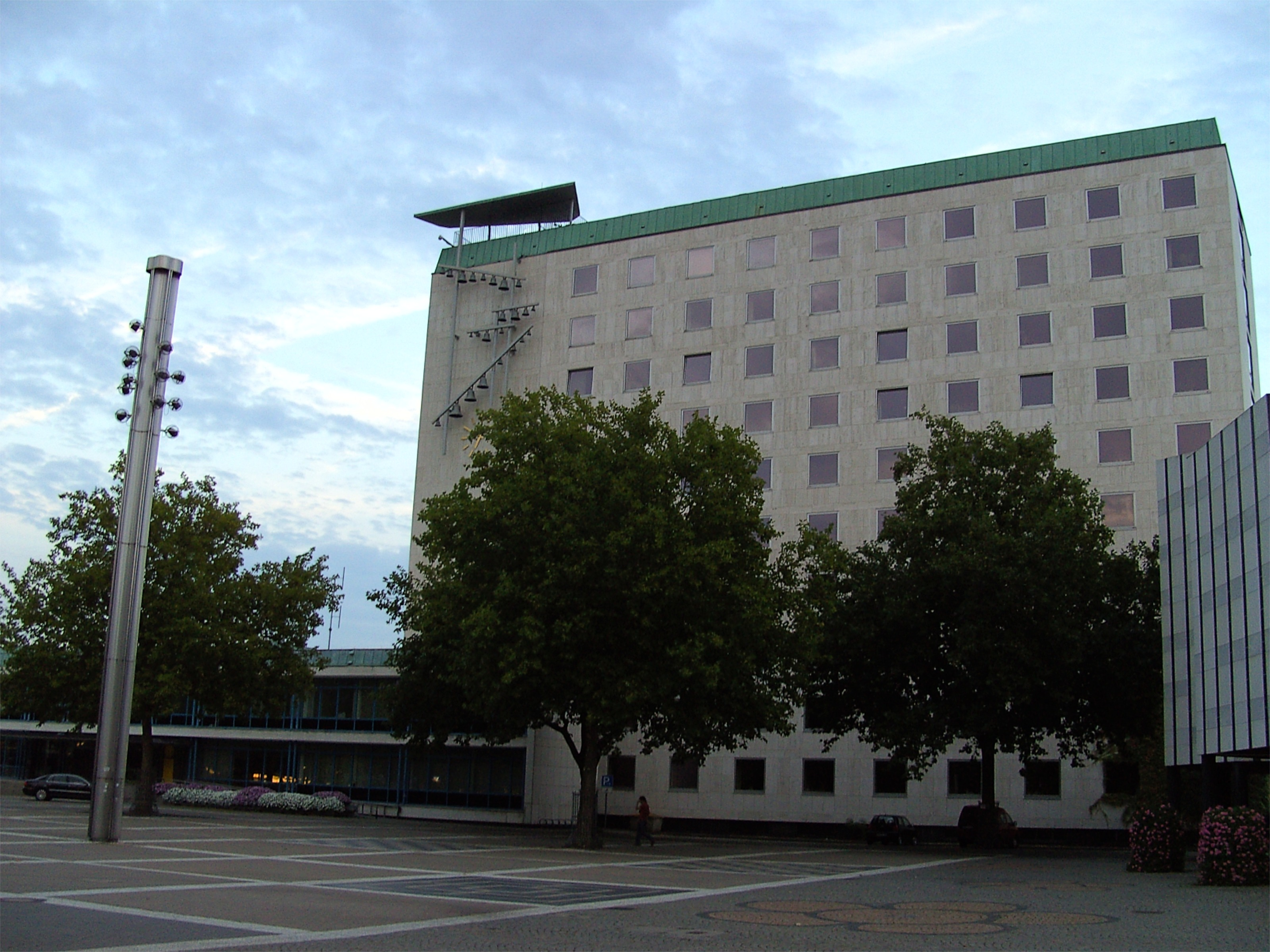 Town hall of Wolfsburg